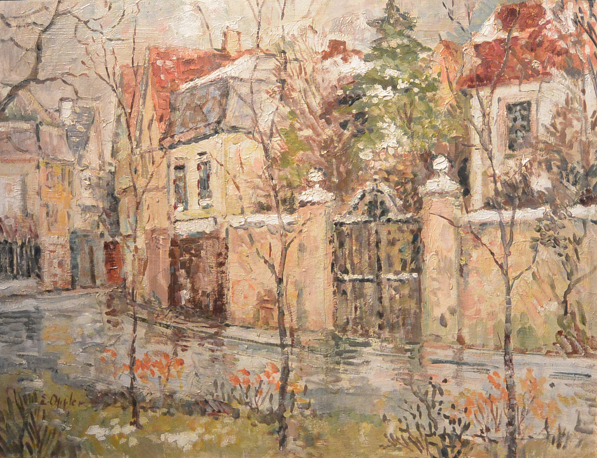 Shows a street with snow